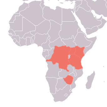 Drosophila Vulcana Distribution map, Based on Yassin 2019 and Catalogue of Life.